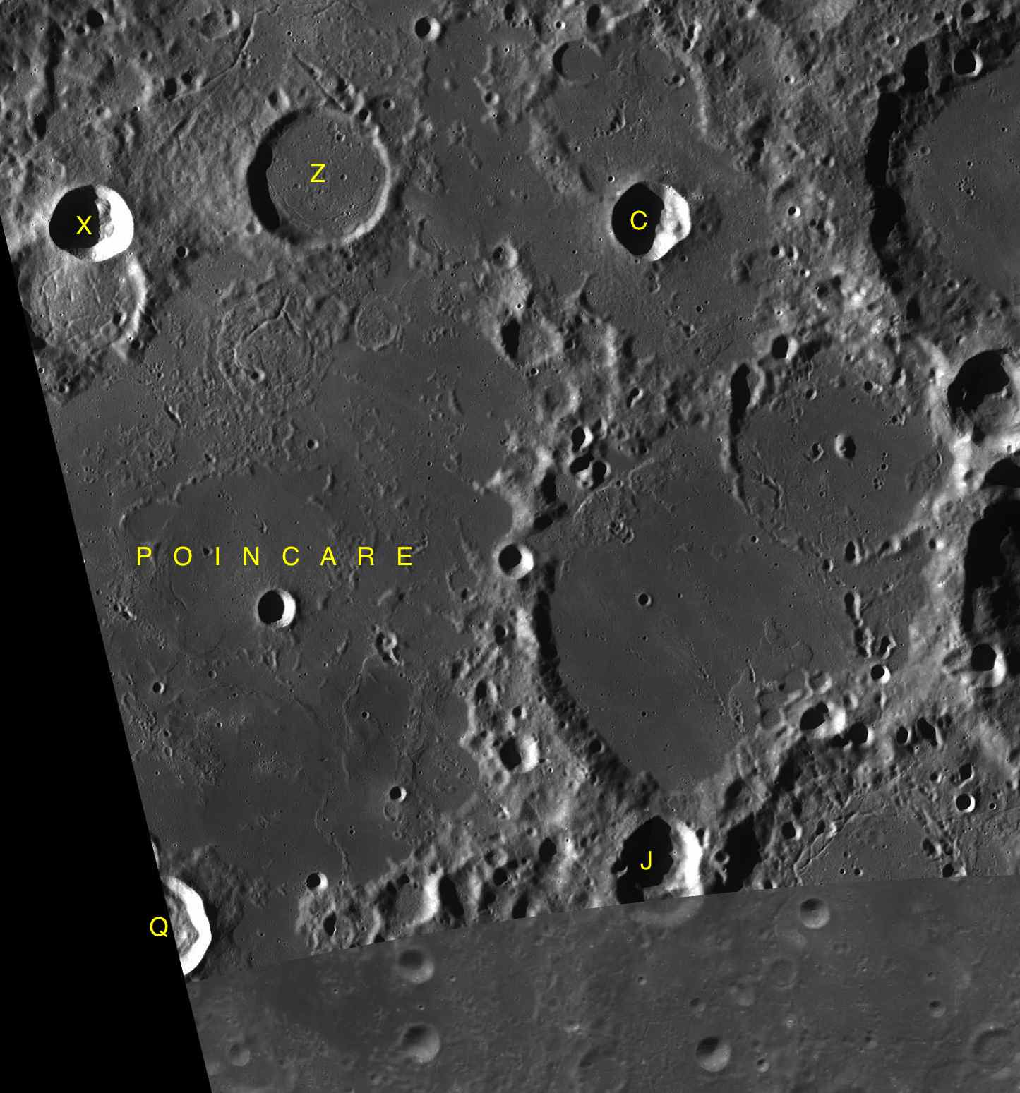 Part of the chart LAC-132 used for the presentation